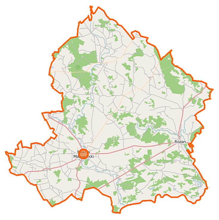 Map of Powiat makowski, Poland This map of Powiat makowski was created from OpenStreetMap project data, collected by the community. This map may be incomplete, and may contain errors. Don't rely solely on it for navigation. Border coordinates53.150120.8438←↕→21.515452.7438